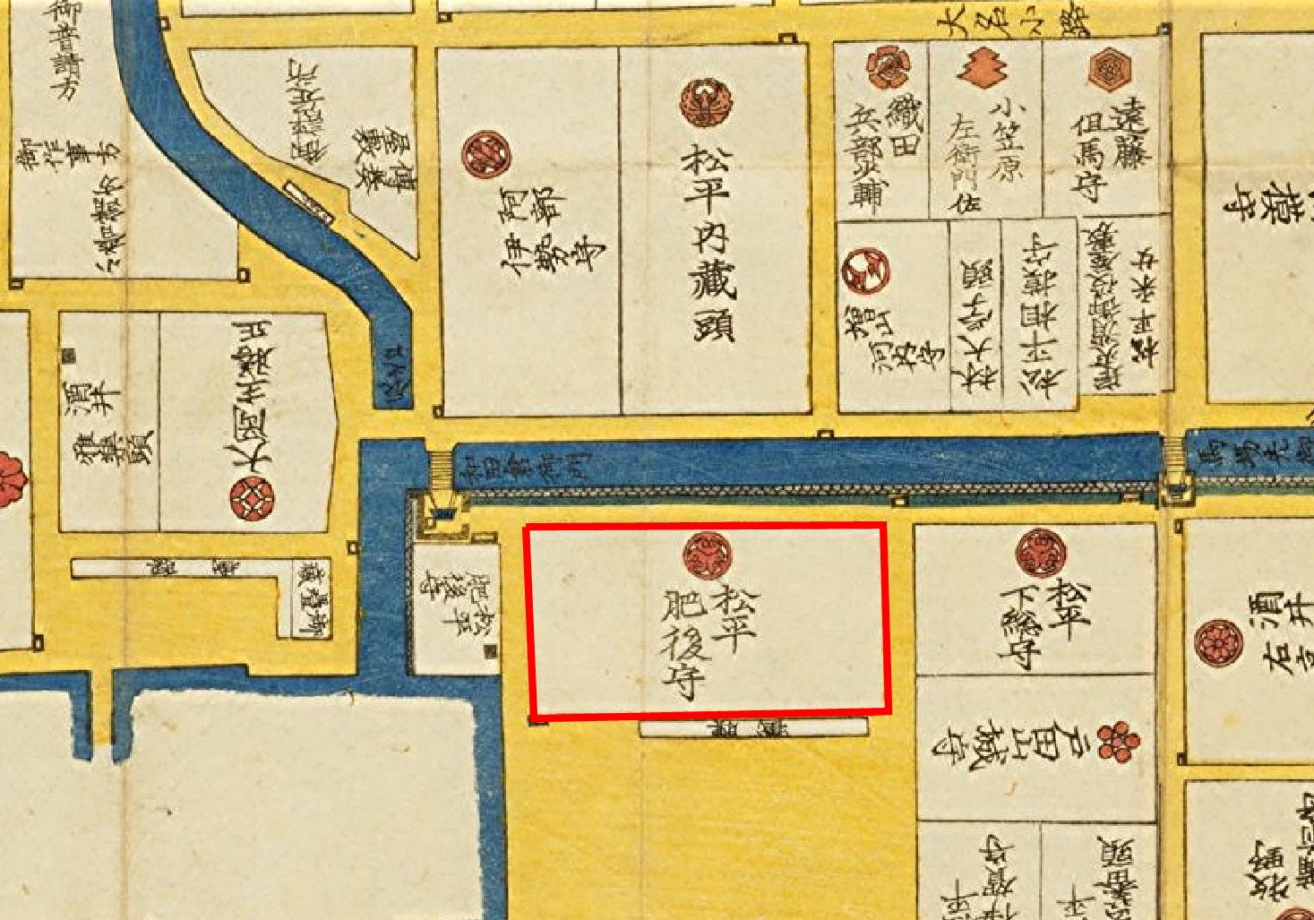 Residence of Hoshina-Matsudaira at Edo